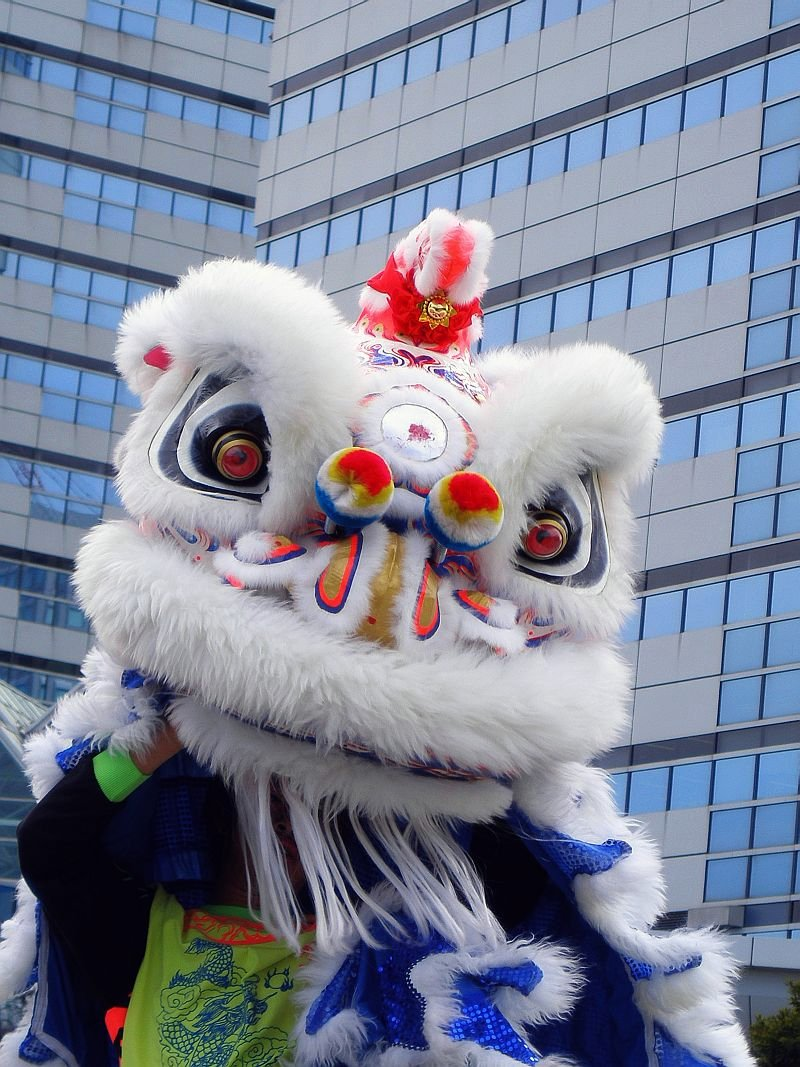 Chinese Lion Dance in Japan